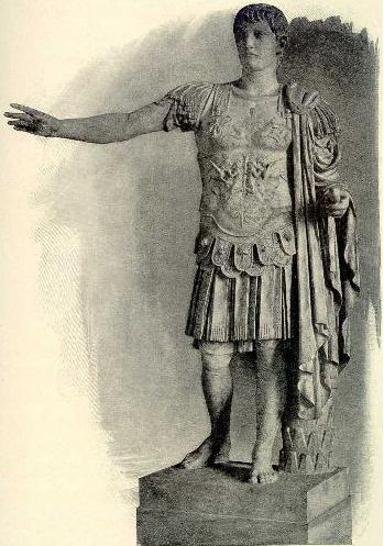 From the statue in Rome. Britannicus.